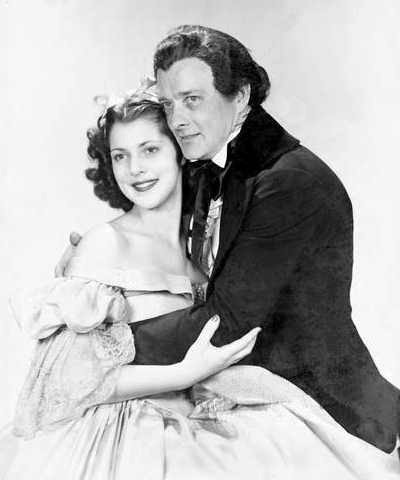 Promotional photograph of Diana Barrymore and Robert Keith in the Broadway production of Romantic Mr. Dickens